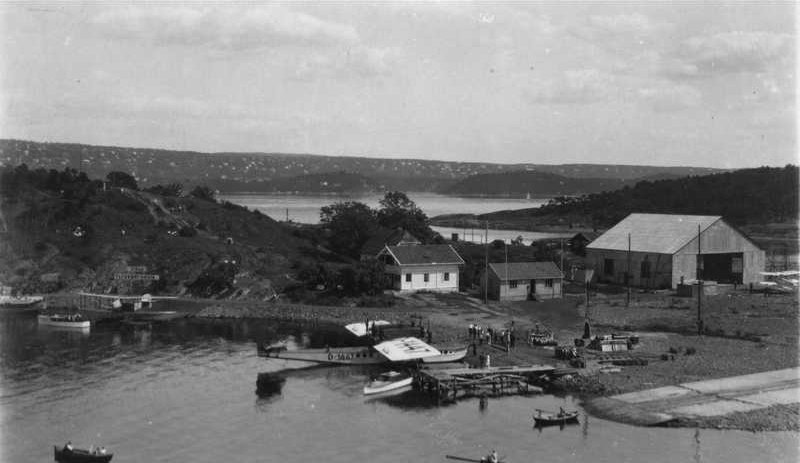 Gressholmen